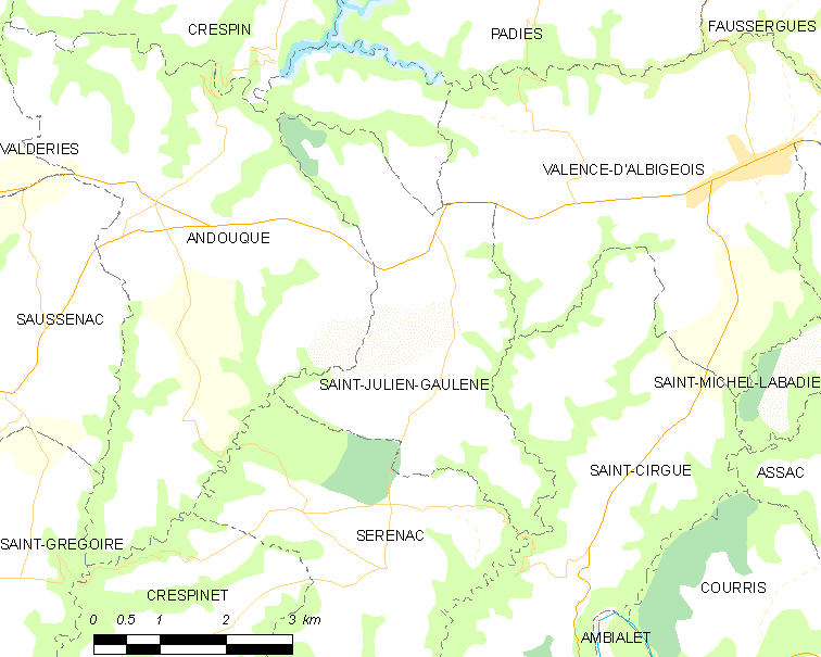 Map of French municipality Saint-Julien-Gaulène